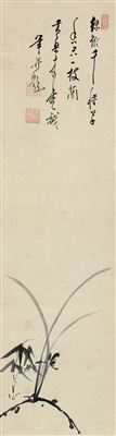 Painting and inscription by Muan Xingtao